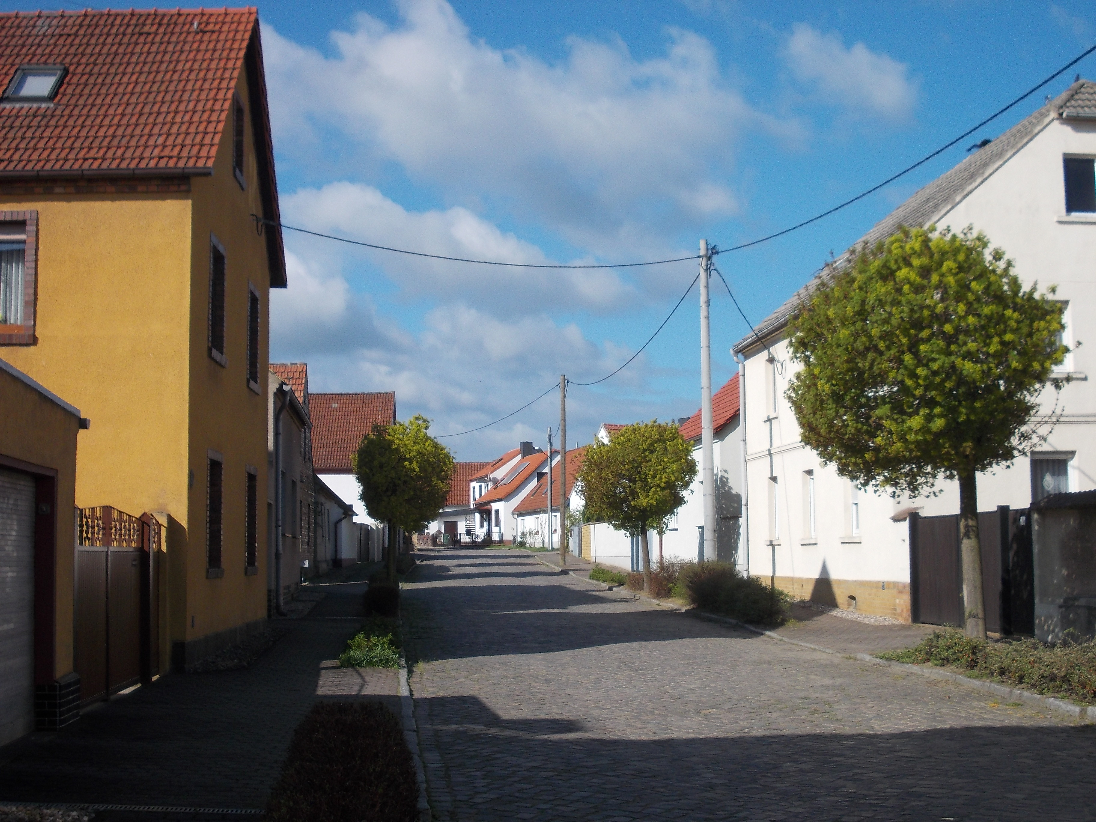 Proschwitz (Dommitzsch, Nordsachsen district, Saxony)